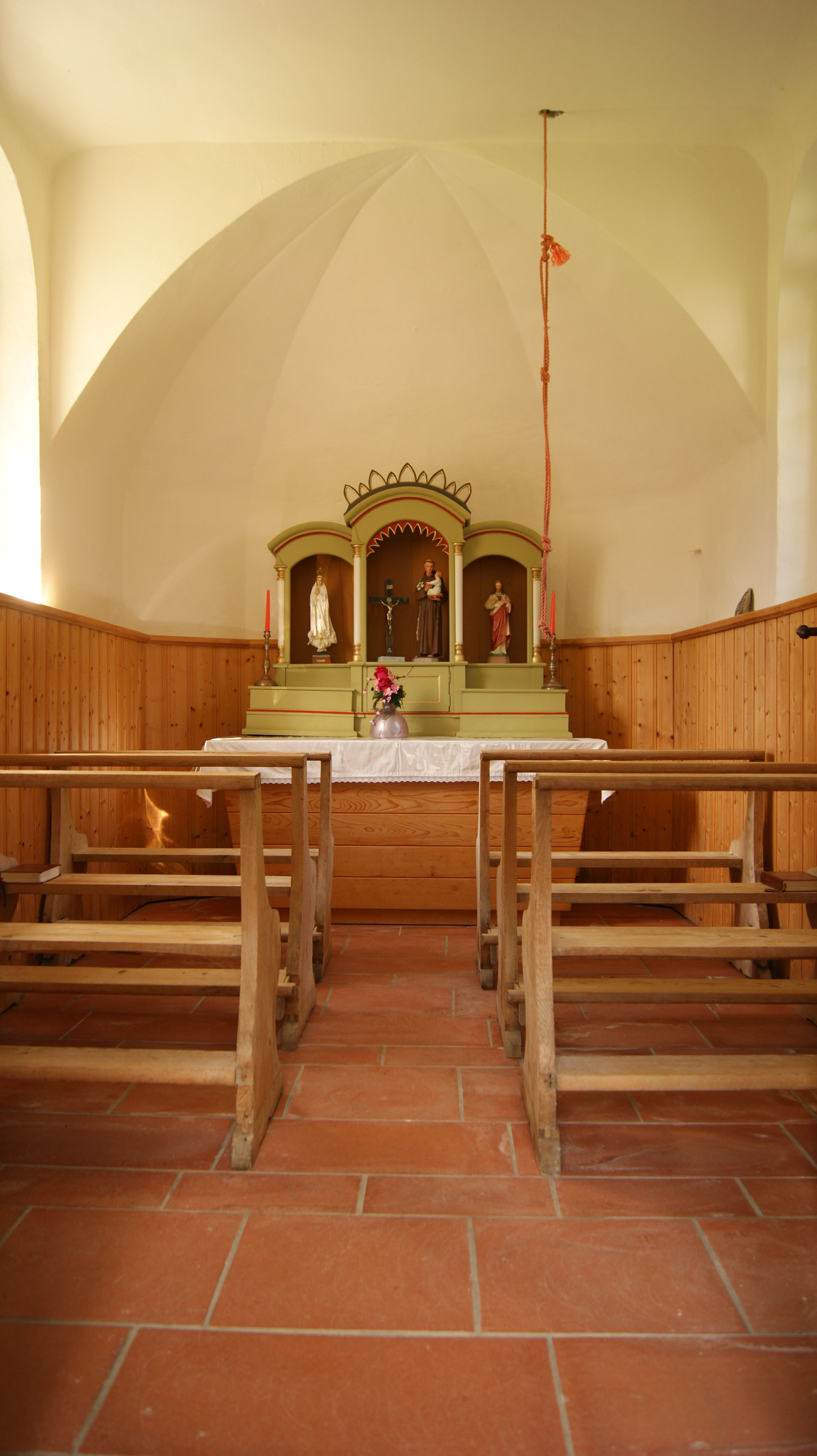 Spa Innerlaterns (also: Spa Laterns, posterior Laternser-spa, posteriorspa, internal Laternserspa) in the Valley Laterns. Former spa and Hotel in Laterns, Vorarlberg, Austria. Chapel Interior.